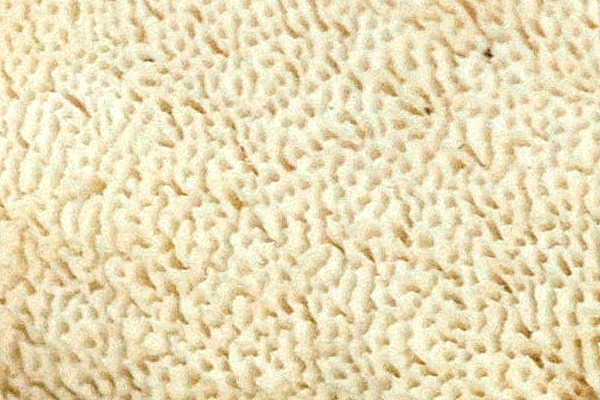 Cerrena unicolor from Commanster, Belgium. If you think this is a different taxon, please contact James Lindsey.